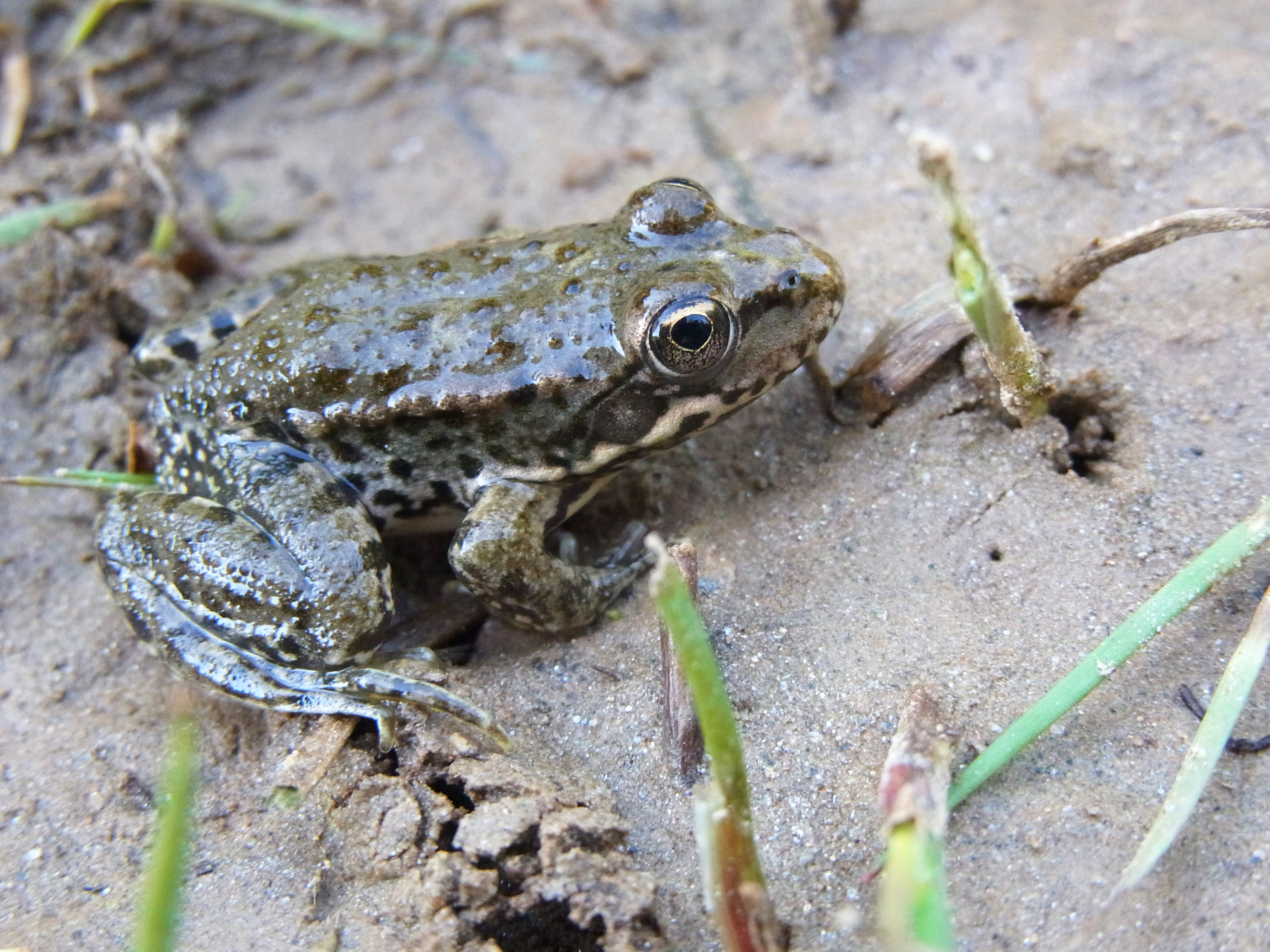 Balkan frog (Pelophylax kurtmuelleri) at a mountain rivulet near Maries, Thasos (Greece)